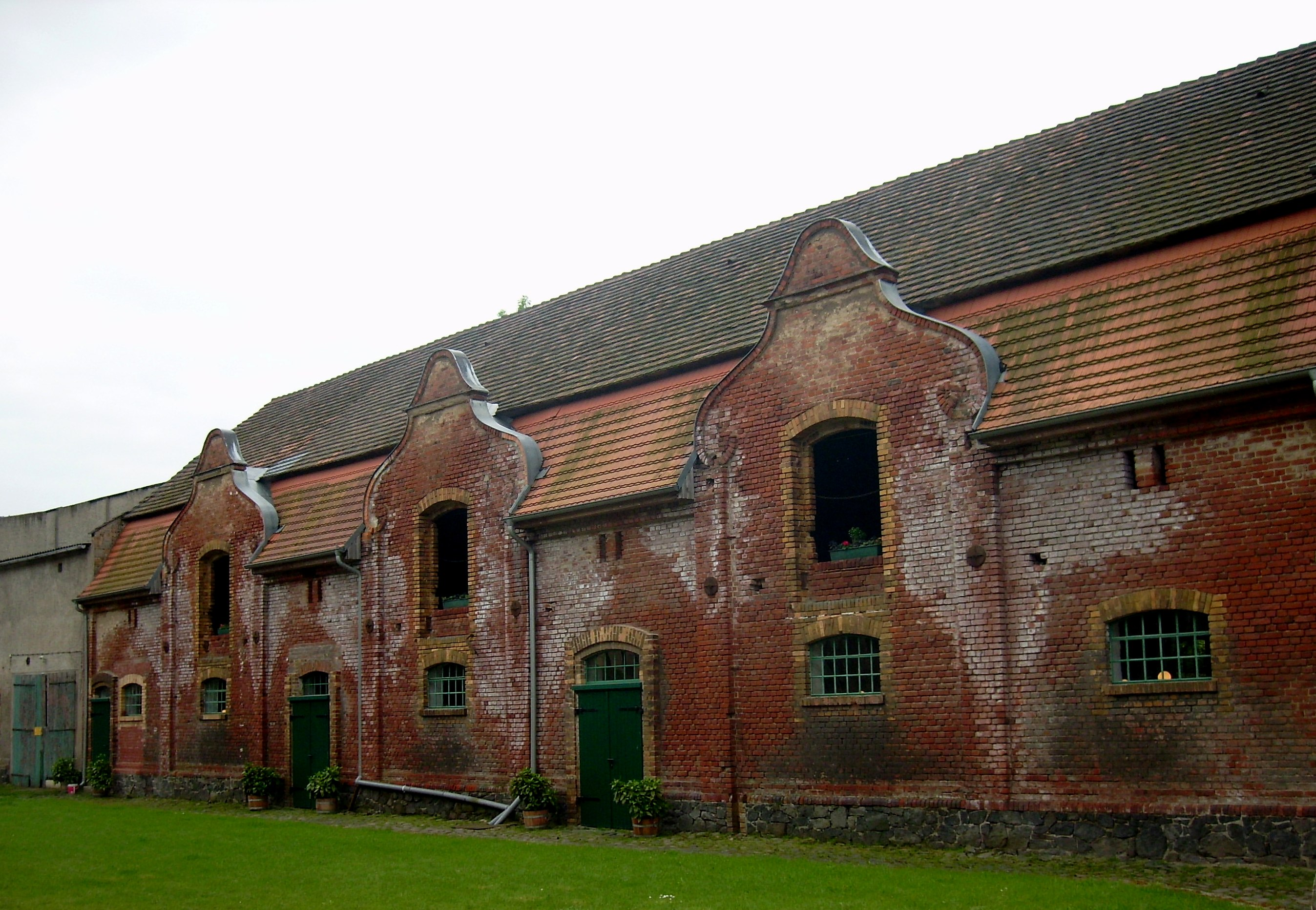 Cowshed of Ermlitz estate (Schkopau, district of Saalekreis, Saxony-Anhalt)